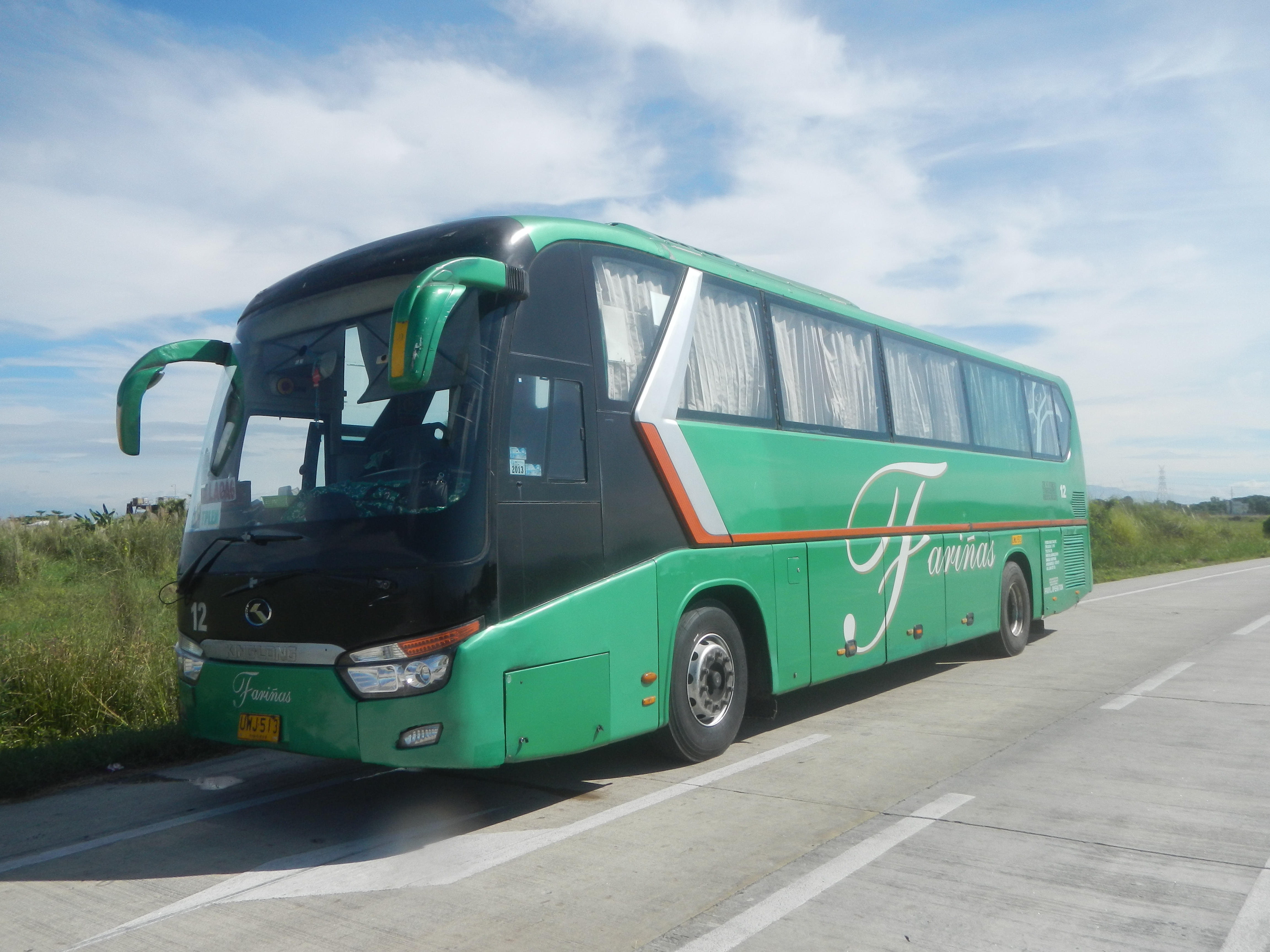 Carmen East 15°53'0"N 120°36'18"E Junction TPLEx acess road-MacArthur Highway, Carmen East from Carmen Enty-Exit Toll Plaza & Interchange TPLEx 15°51'19"N 120°37'28"E Tarlac–Pangasinan–La Union Expressway Tarlac–Pangasinan–La Union Expressway Toll Plaza - Tarlac Barrier southernmost terminal Paddy-sugar cane fields, grasslands and trees in Tarlac–Pangasinan–La Union Expressway photos taken from an open left side window of an Air-con bus from Dau, Mabalacat Terminal to NLEX-SCTEX-TIPLEX Carmen exit, Rosales, Pangasinan from MacArthur Highway Philippine highway network (Note: Judge Florentino Floro, the owner, to repeat, Donor Florentino Floro of all these photos hereby donate gratuitously, freely and unconditionally Judge Floro all these photos to and for Wikimedia Commons, exclusively, for public use of the public domain, and again without any condition whatsoever).